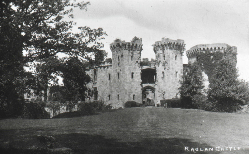 Raglan Castle from across field showing gateway by W.A. Call. Monmouth Museum identity number: M1928.176